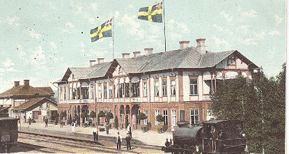 The railroad hotel in Bollnäs, Sweden. Bought by Wilhelmina Skogh in 1884.